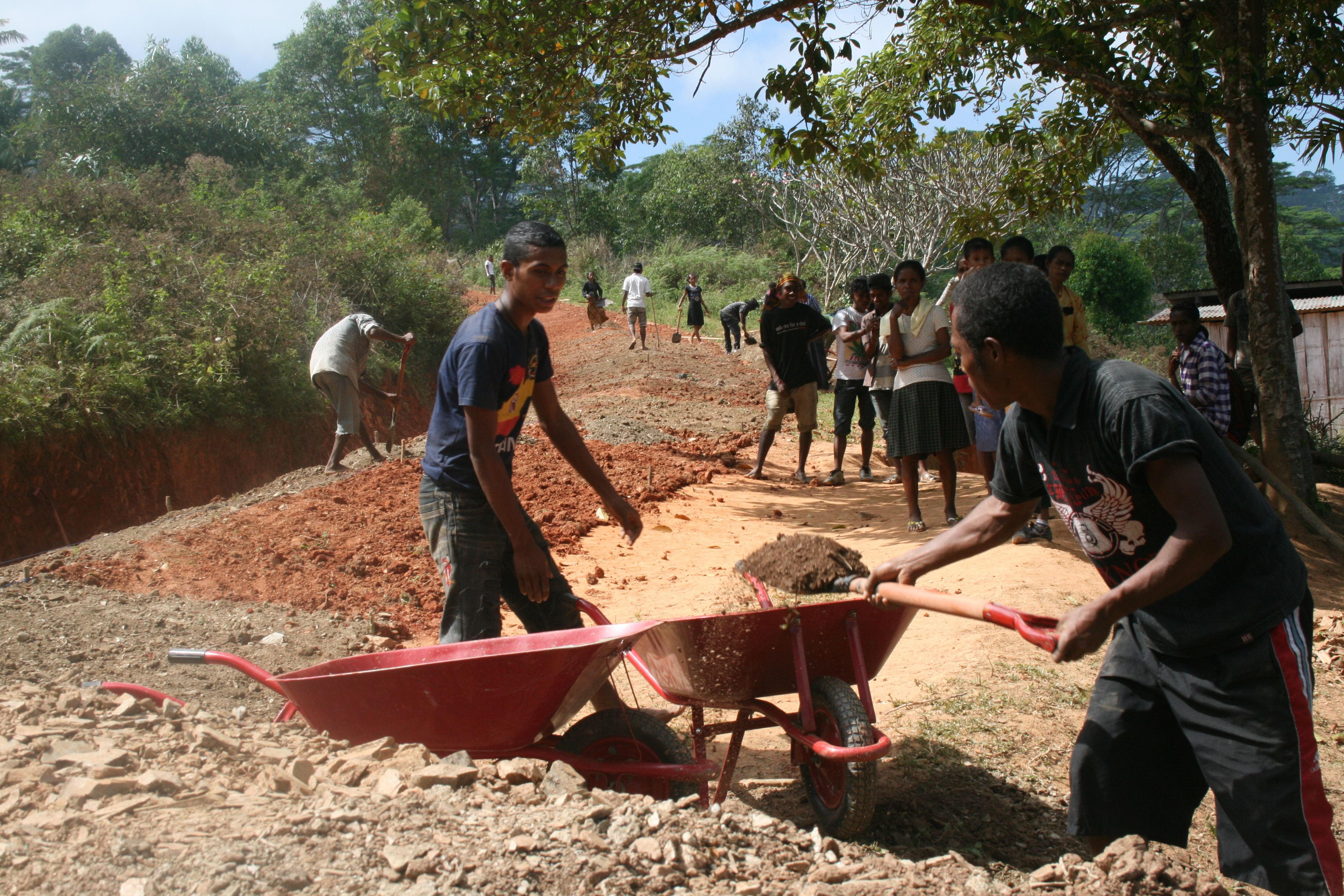 Road building, Timor Leste 2010.